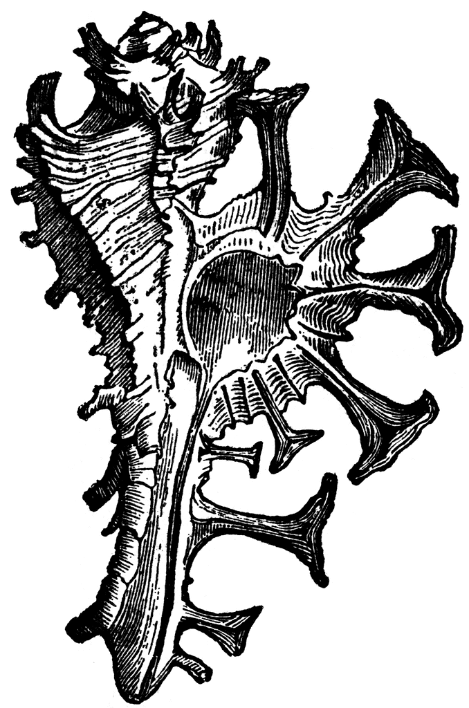 Drawing of Homalocantha scorpio, taken from the book Beauties and Wonders of Land and Sea (1895), edited by Hazlitt Alva Cuppy PH.D. (Crowell & Kirkpatrick Co. Springfield, Ohio).